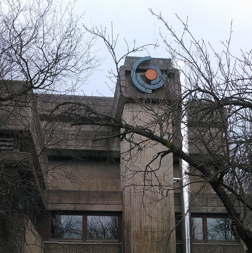 Aspect of the Kulturzentrum Mattersburg (building), Austria